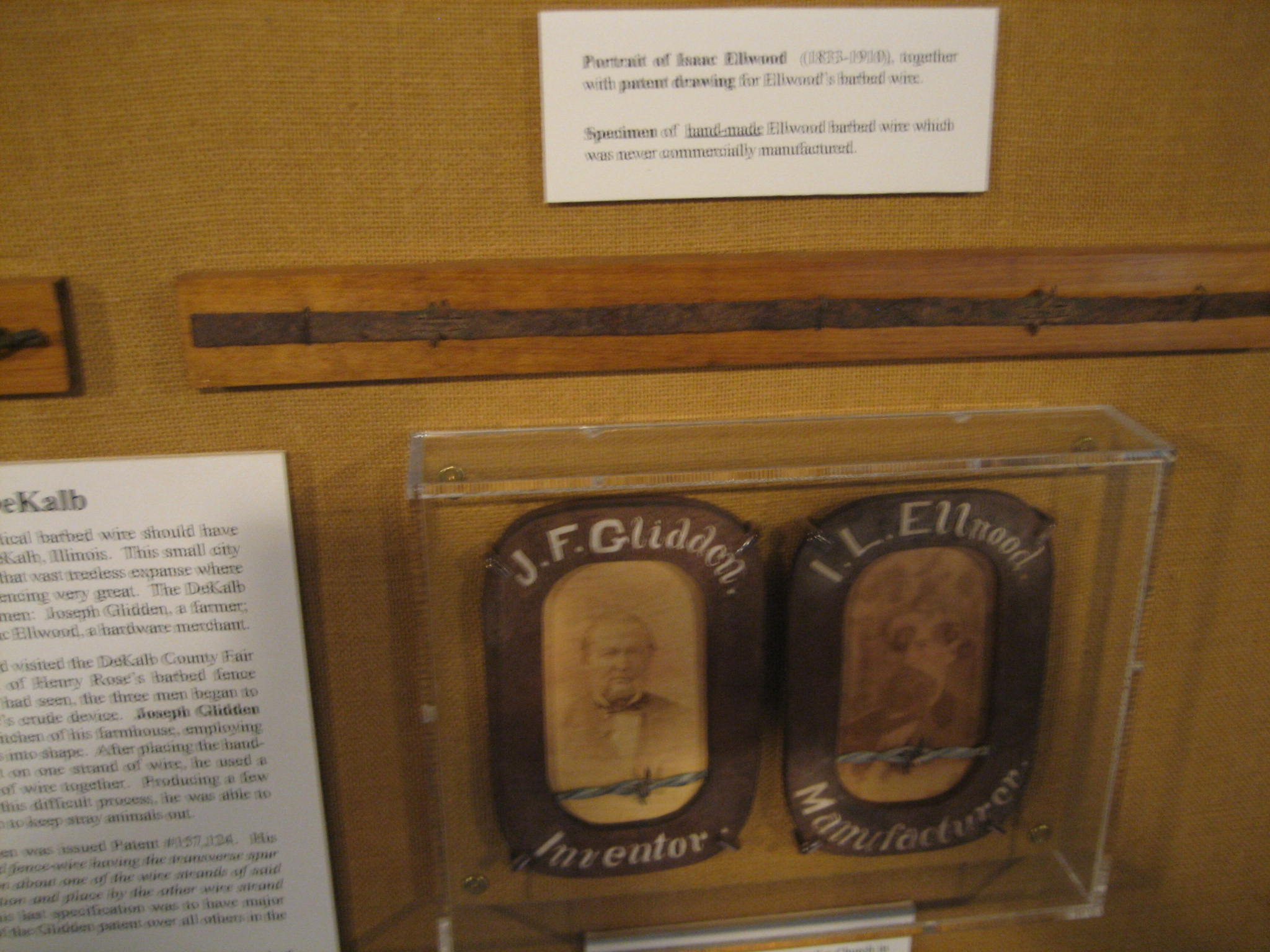 A pair of portraits pulled from a time capsule in DeKalb, Illinois. Photos of Joseph Glidden and Isaac Ellwood with Ellwood's handmade barbed wire above. Barbed Wire History Museum at the Ellwood House Visitor Center in DeKalb, Illinois.